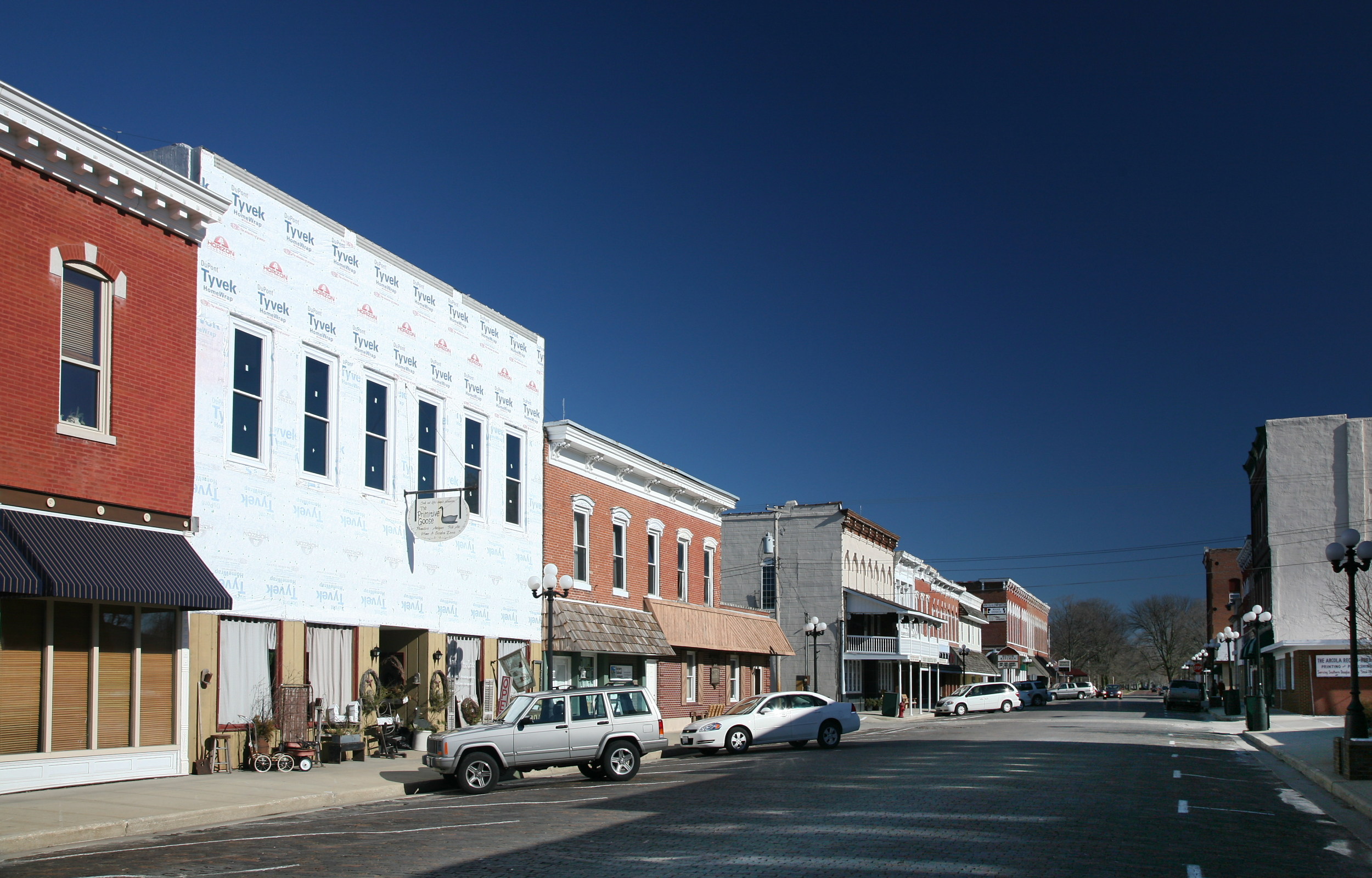 East Main Street, Arcola, Illinois, USA